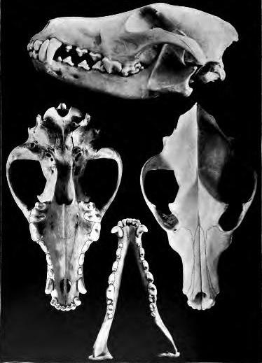 Coyote skull